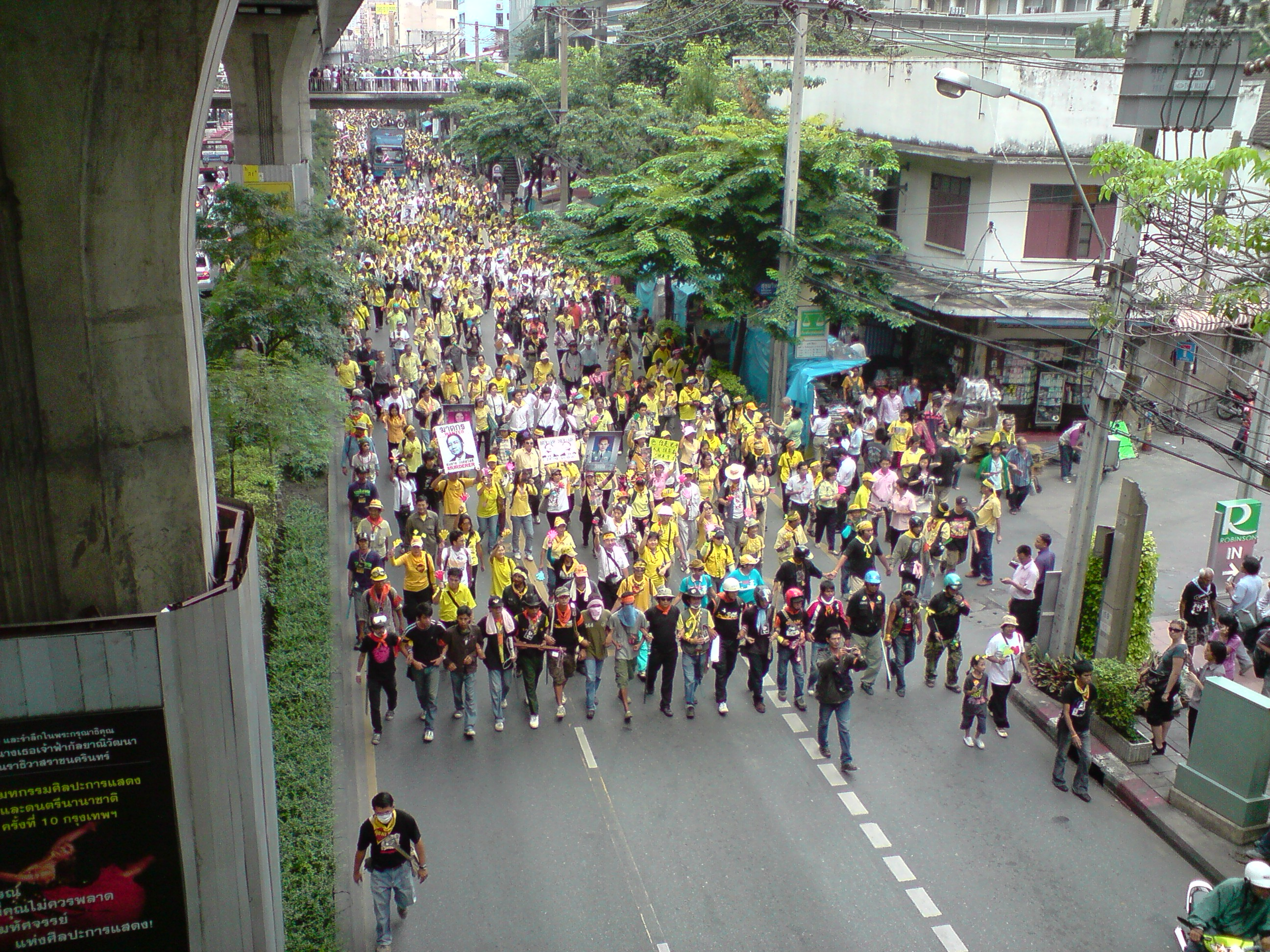 People's Alliance for Democracy (PAD) rally on Sukhumvit road on August 30, 2008, after marching to the British Embassy on Ploenchit road in the morning.